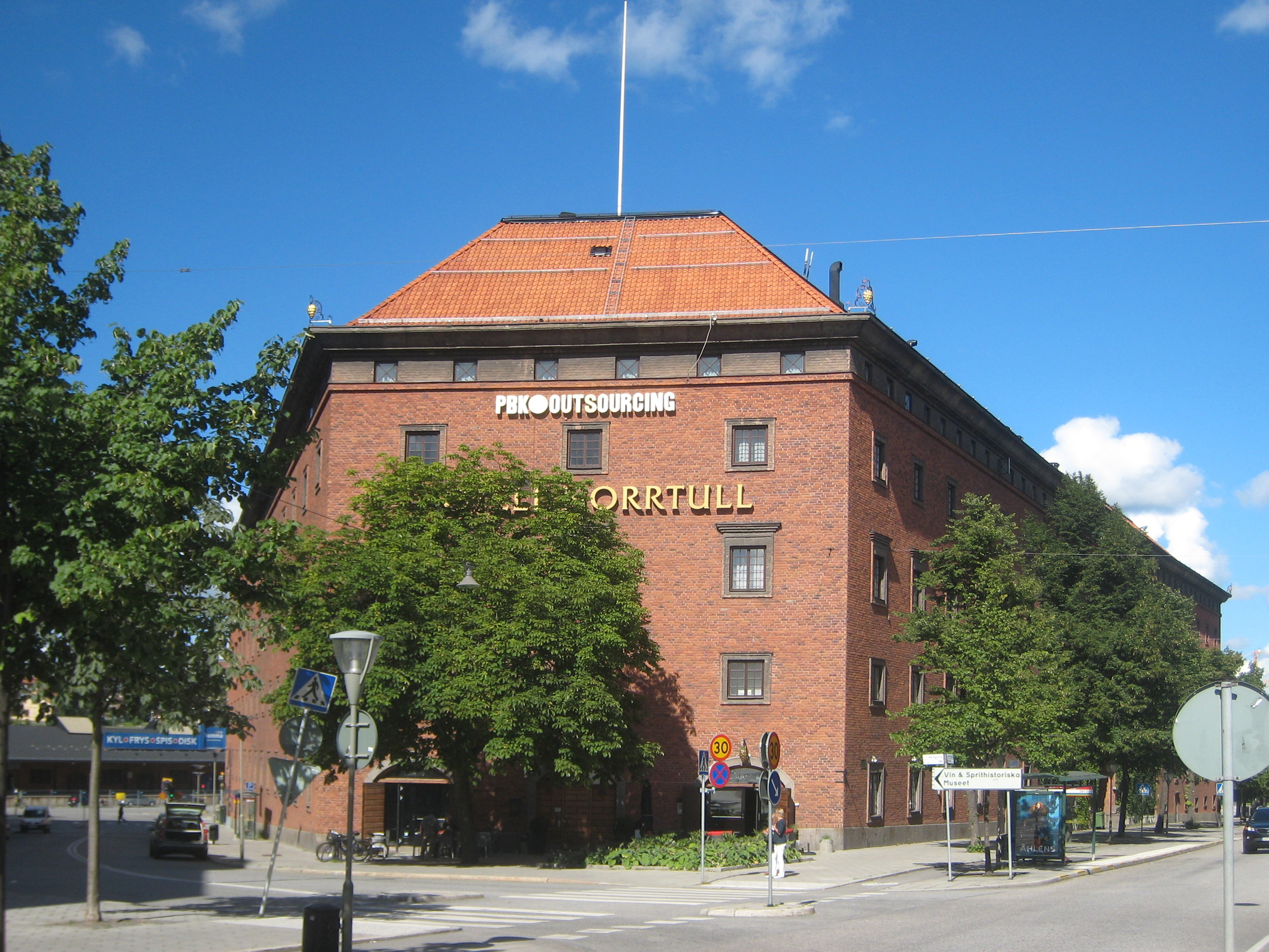 Grönstedska palatset (vinlagret), Städet 9.